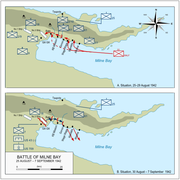 Map illustrating the Battle of Milne Bay, which took place 25 August – 7 September 1942.